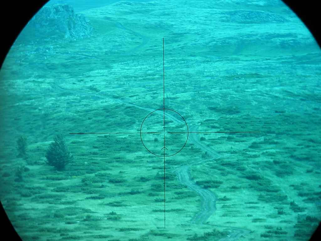 Optical sight anti Tank Weapon MILAN